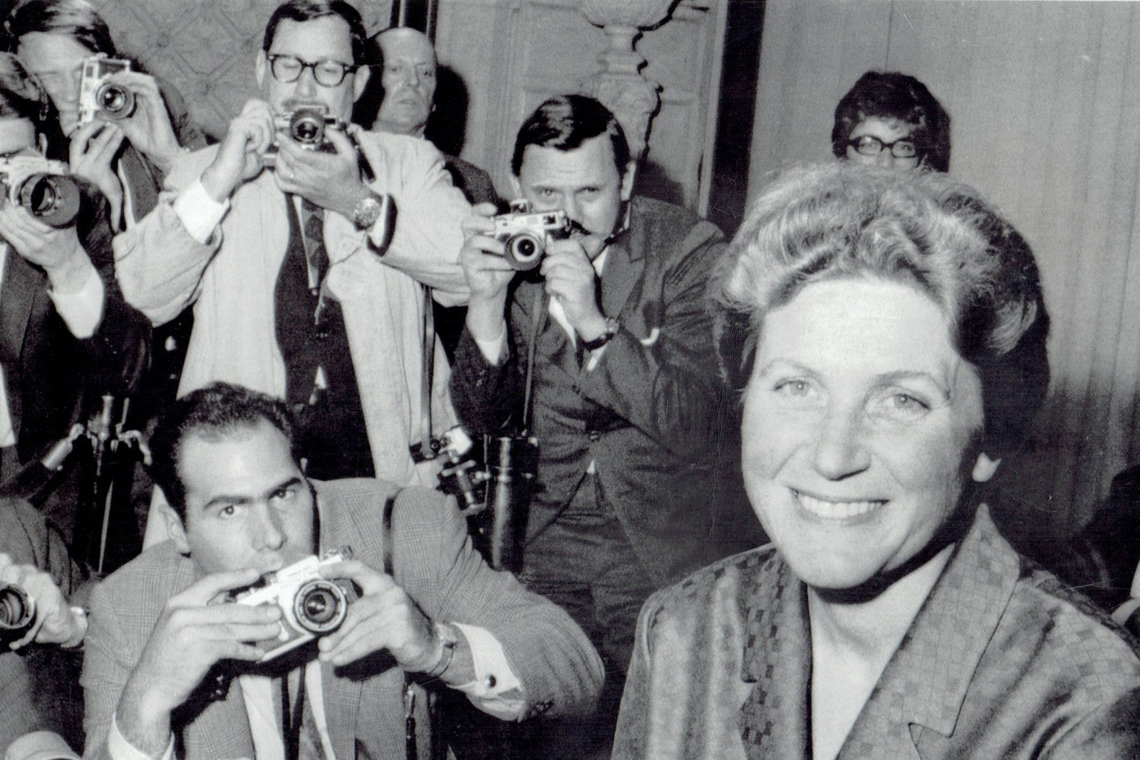 1967 Wire Photo Soviet Premier Joseph Stalin daughter Svetlana Alliluyeva in NYC